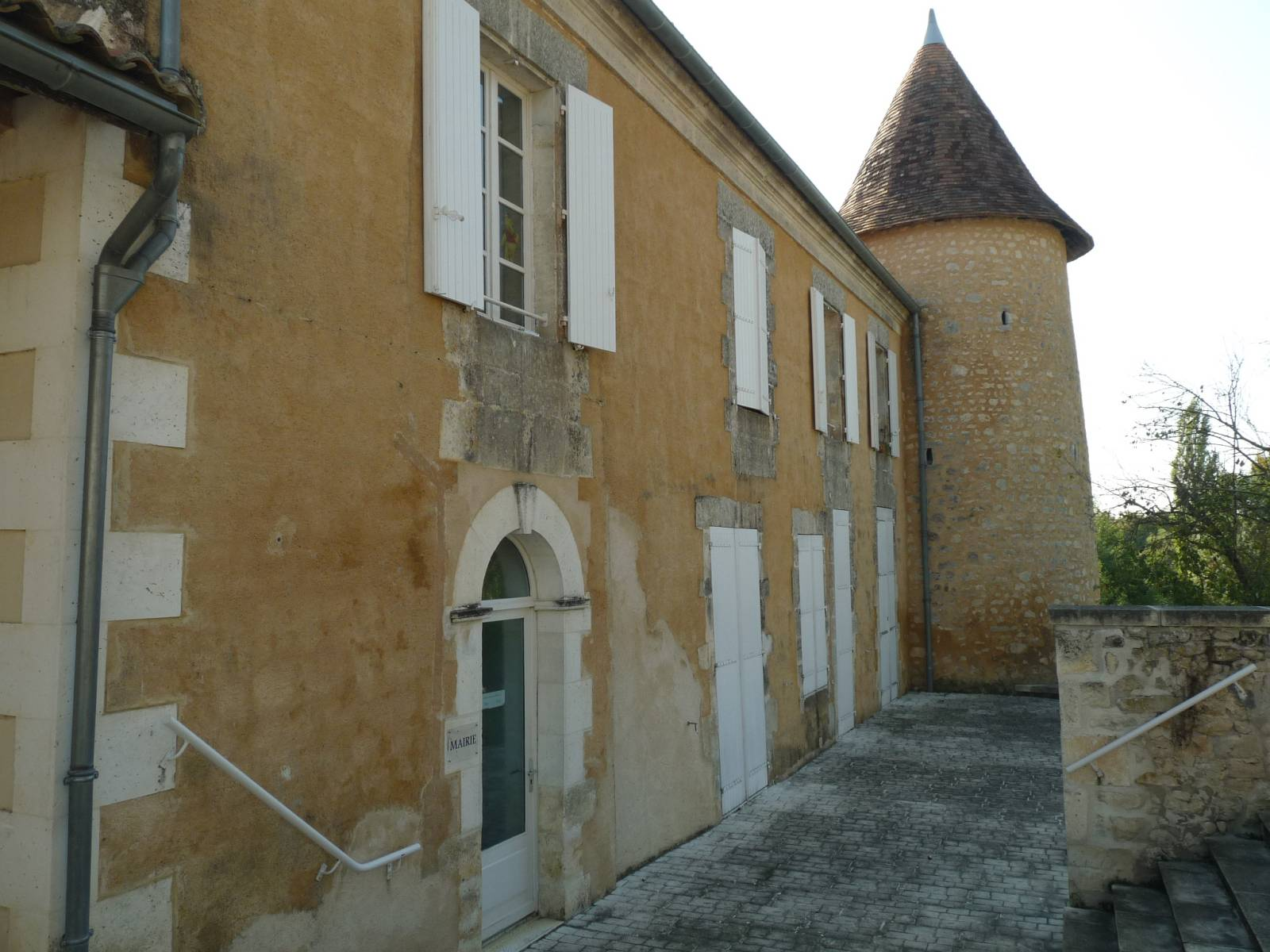 town hall of Blanzaguet-Saint-Cybard, Charente, SW France